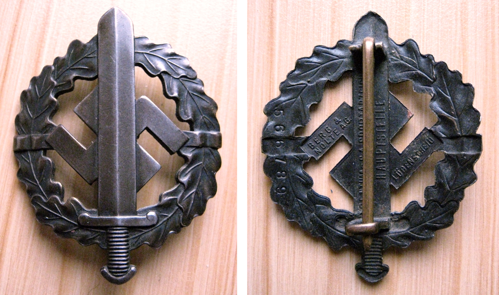 German SA-Sportsbadge (WW2)